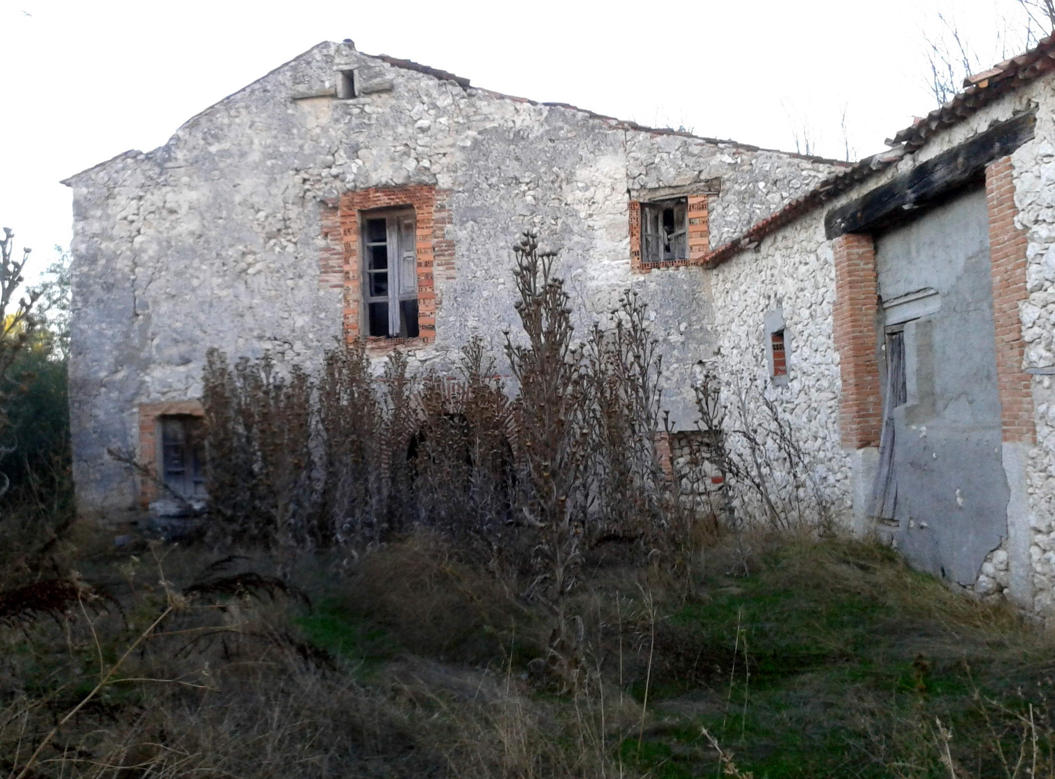 Mill of Dehésa de Cuéllar, Segovia, Spain.